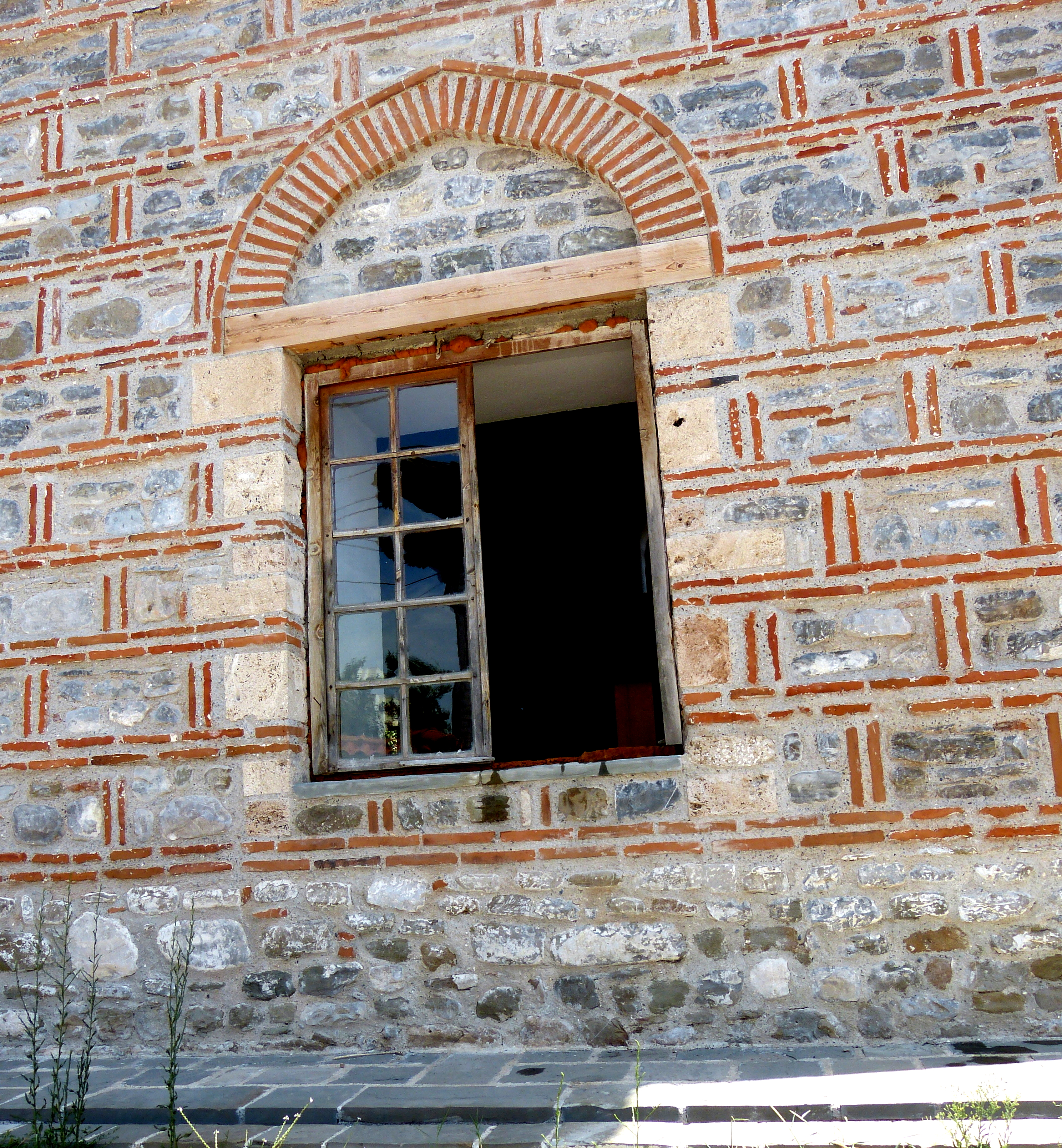 Elbasan ( Albania ). Mbret-Mosque ( 1492 ): Window.